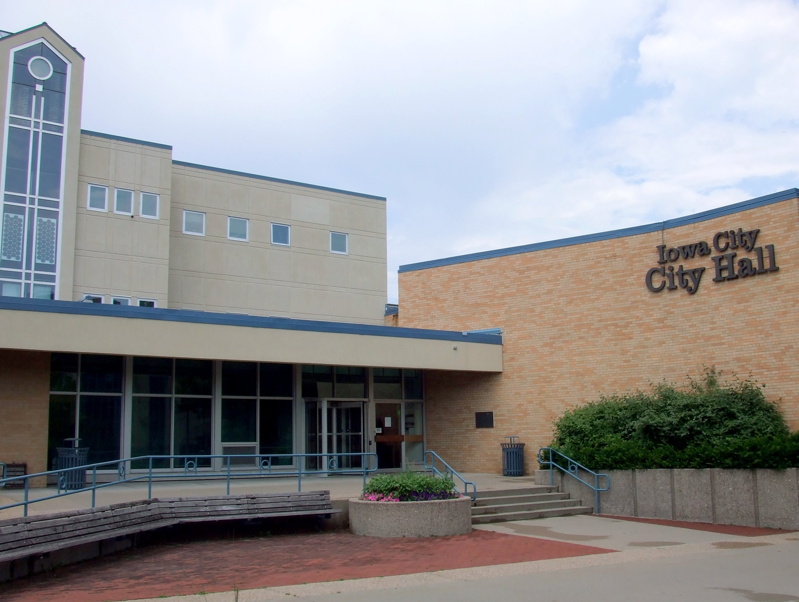 A view of the Iowa City City Hall.